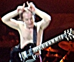 Angus Young performs his famous devil horns act onstage i Stockholm, Sweden 2009. (Low quality)